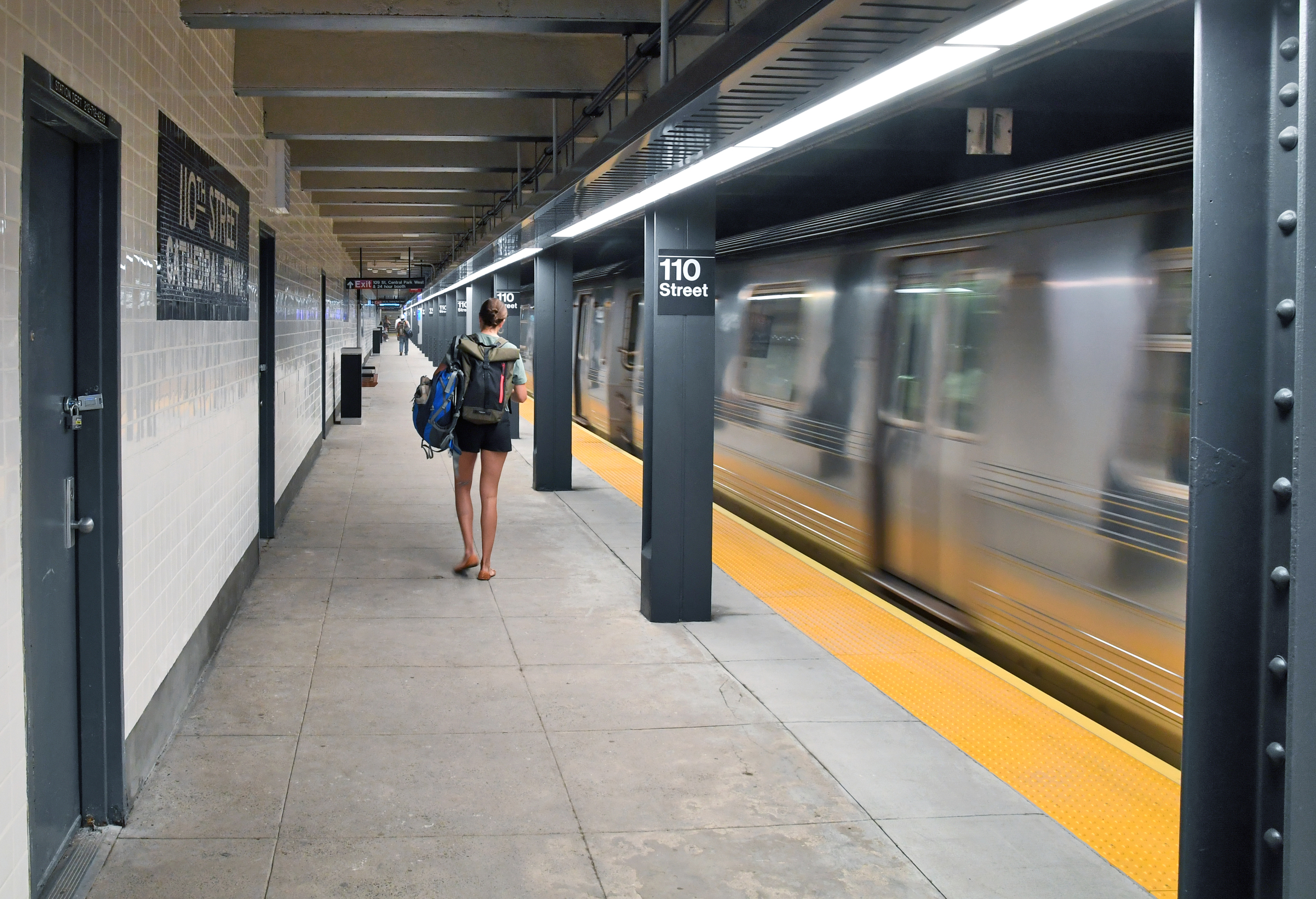 MTA New York City Transit President Andy Byford visited the reimagined Cathedral Pkwy (110 St) station on Tue., September 4, 2018, following five months of repair and renovation work. Photo: Marc A. Hermann / MTA New York City Transit